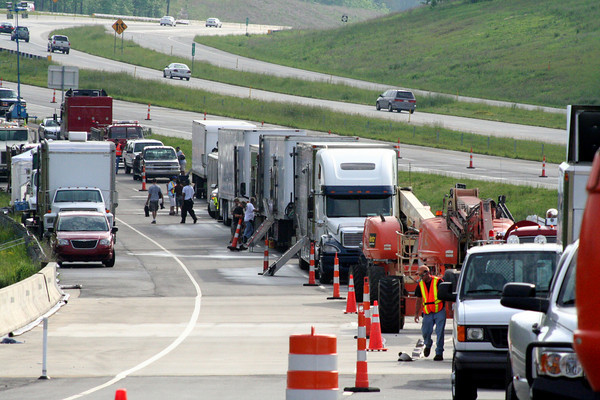 2nd unit shooting in Morrisville, NC on NC540 for Main Street'